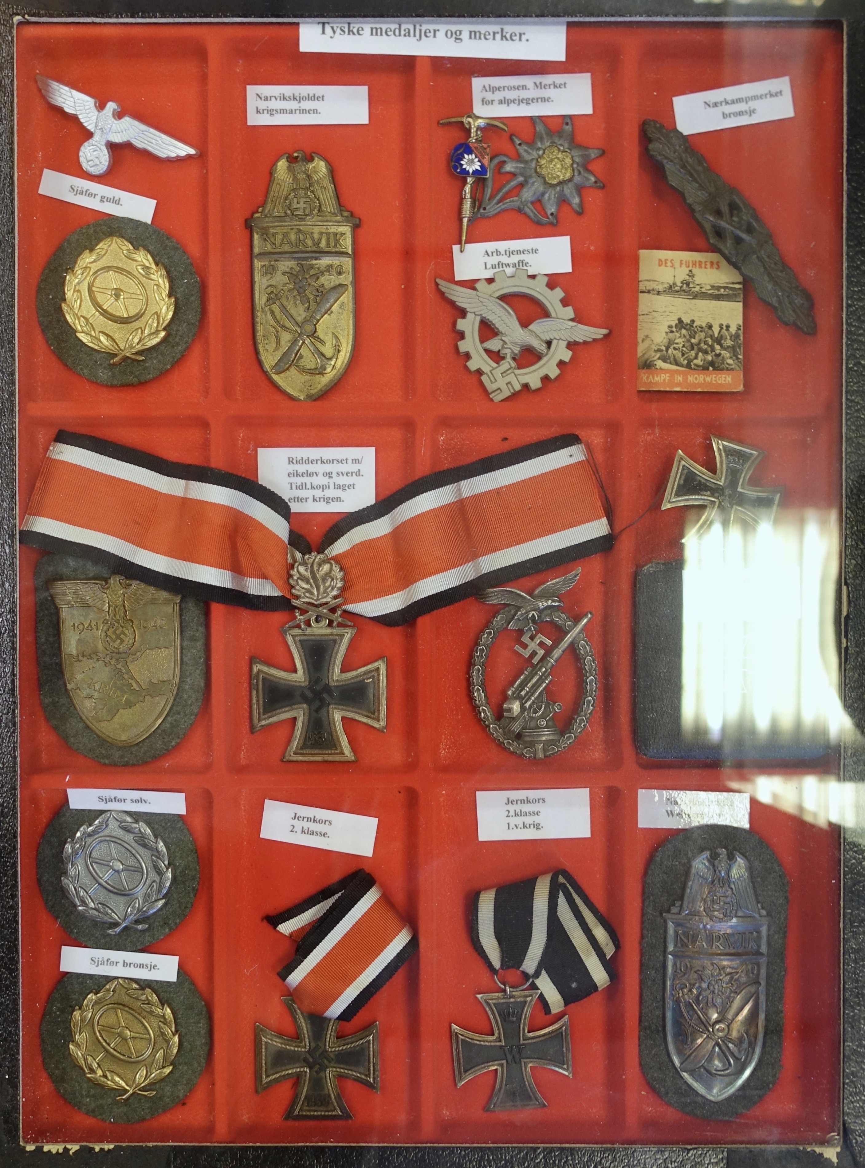 Misc. military and civil badges, decorations, and pins of Third Reich/Nazi Germany. Names and descriptions in Norwegian. 1st row: 1. a. Nazi eagle cap badge; b. Driver’s Proficiency Badge/Front Line Driver's Badge (Kraftfahrbewährungsabzeichen) of the German army (Wehrmacht Heer), in Gold 2. Narvik Shield of the Kriegsmarine 3. a. Gebirgsjäger pin; b. Edelweiss emblem cap badge of the German army mountain troops (Gebirgsjäger); c. Luftwaffe engineer's cap badge (Luftwaffe Mützenabzeichen) 4. Nahkampfspange 2nd row: 1. Crimea Shield 2. Iron Cross 3. Luftwaffe Flak Badge (Flak-Kampfabzeichen der Luftwaffe) 4. Iron Cross 3rd row: 1. Driver’s Proficiency Badge/Front Line Driver's Badge in Silver and Bronze 2. Iron Cross 1939 2nd class 3. Iron Cross WWI 2nd class 4. Narvik ShieldCropped, adjusted photo taken on May 8, 2019 at the Lofoten War Memorial Museum (Lofoten Krigsminnemuseum) in Svolvær, Norway. The museum exhibits uniforms, militaria, memorabilia, smaller items, etc. related to World War II, the German occupation of Norway 1940 – 1945, and the Third Reich era. Cropped, adjusted perspective version Cropped, adjusted perspective version